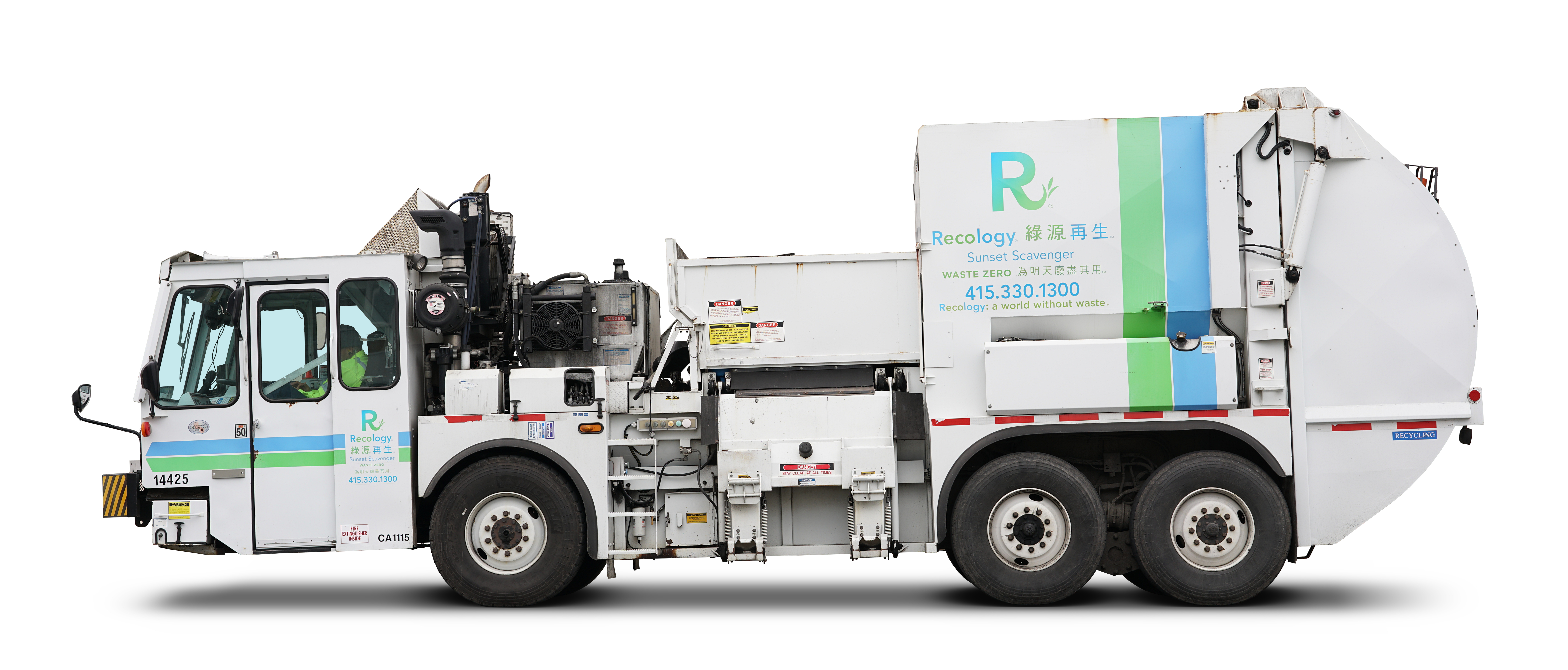 A Lōdal Evo T-28 waste collection truck operated by Recology in San Francisco, California, USA. This vehicle is a side-loading compacting waste collection truck. Waste is loaded into the hopper located in the middle of the vehicle, which is then compressed into the body by a hydraulic ram.